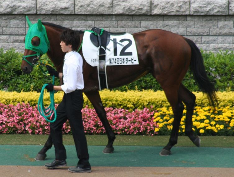 Sun Zeppelin